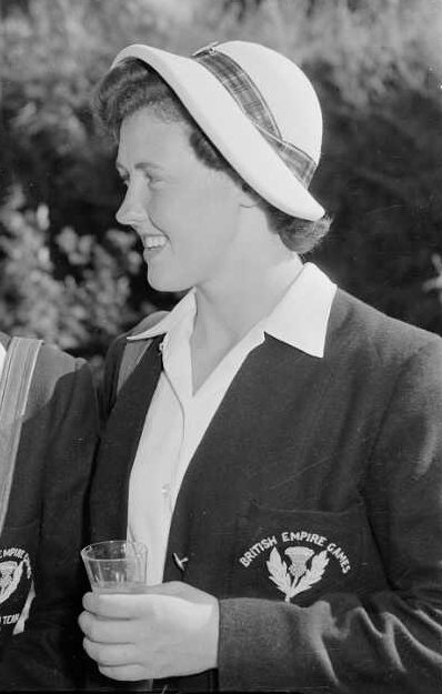 Three swimmers from the Scottish team for the 1950 British Empire Games wearing their official uniform: Elizabeth Turner, Helen Gordon, and Margaret Girvan. The women are at a garden party at Government House in Auckland. Photograph taken on 2 February 1950 by an Evening Post photographer. Conditions were decidedly sultry when Auckland yesterday had its first garden party for many years at Government House and for the first time at such a function had Empire athletes as guests of honour. Enjoying a cooling drink are Scotland's three women swimmers (from left) Elizabeth Turner, Helen Gordon, and Margaret Girvan.